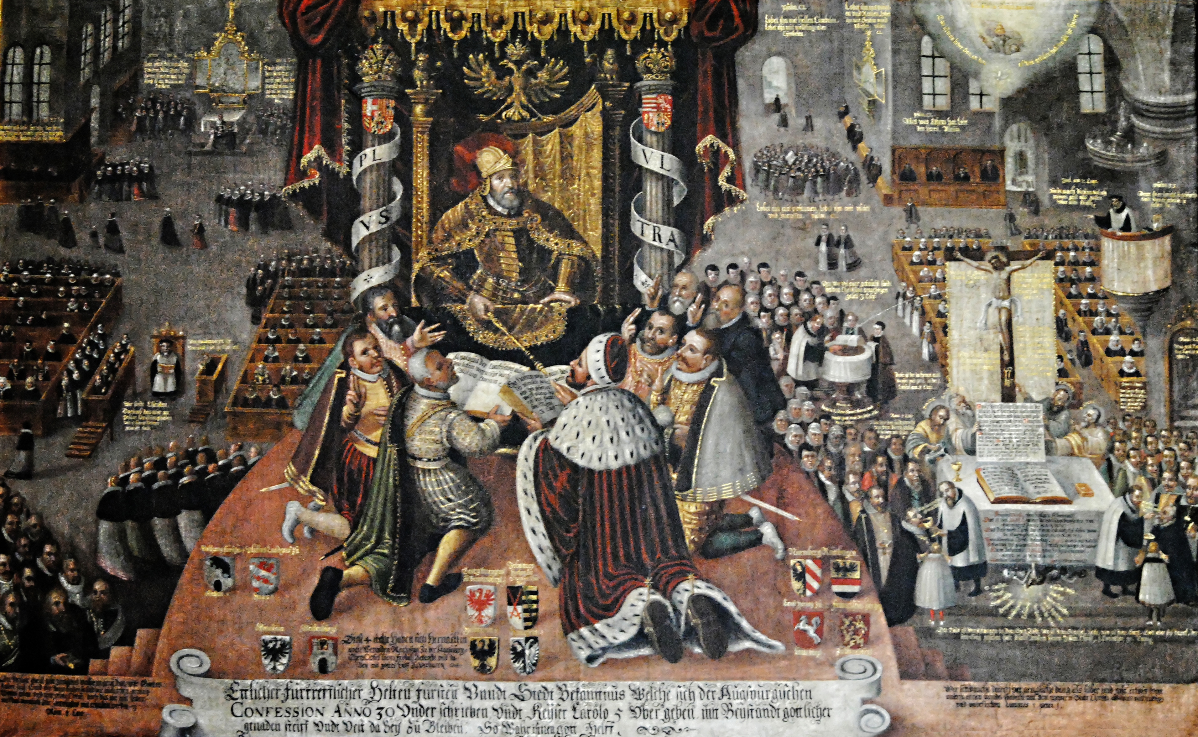 Konfessionsbild, "Presentation of the Augsburg Confession", St. Johannis, Schweinfurt